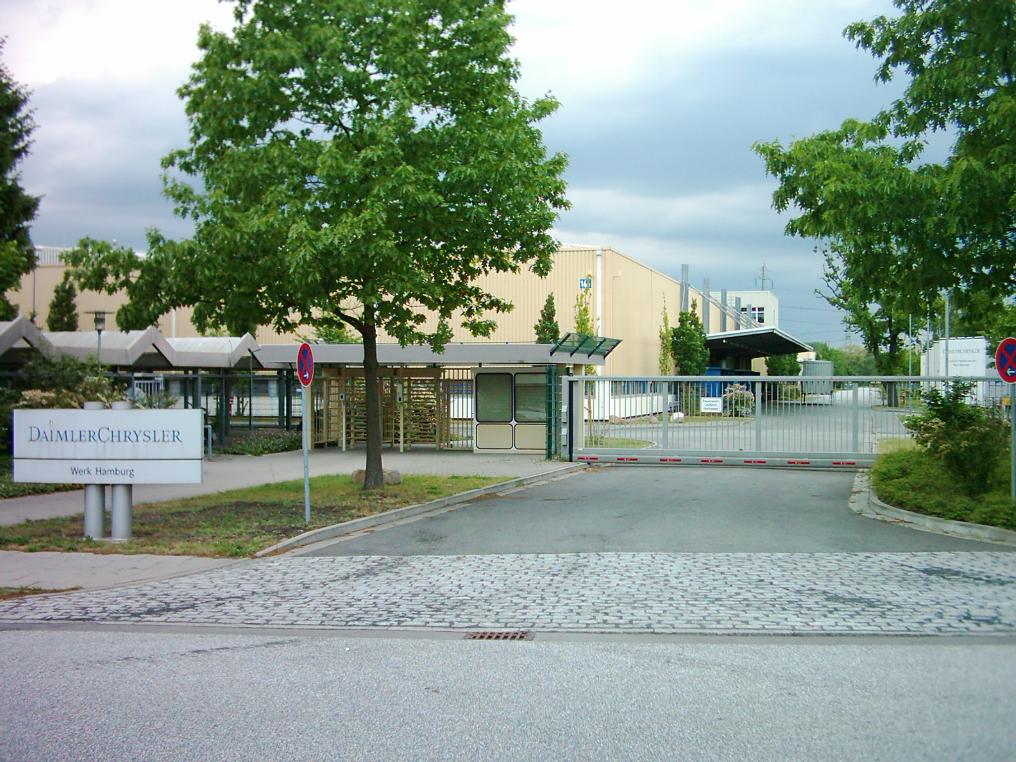 DaimlerChrysler factory in Hamburg, Germany.